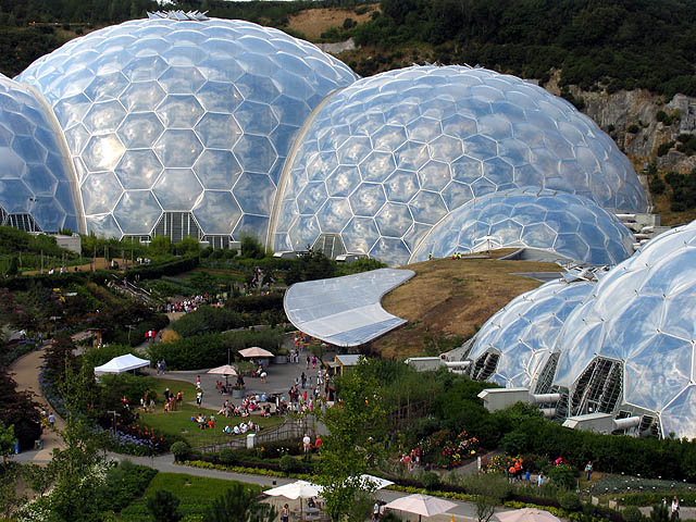 The Eden Project. This is a view from the entrance building, looking towards the humid biomes and the section connecting the humid and the other biomes.